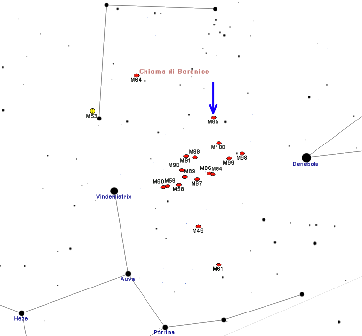 Map of M85